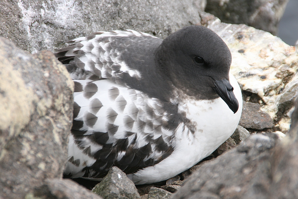 A breeding cape petrel Daption capense on King George Island, Antarctica